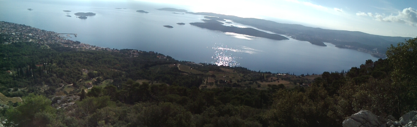 Panorama of Podgorje, islands and Lumbarda